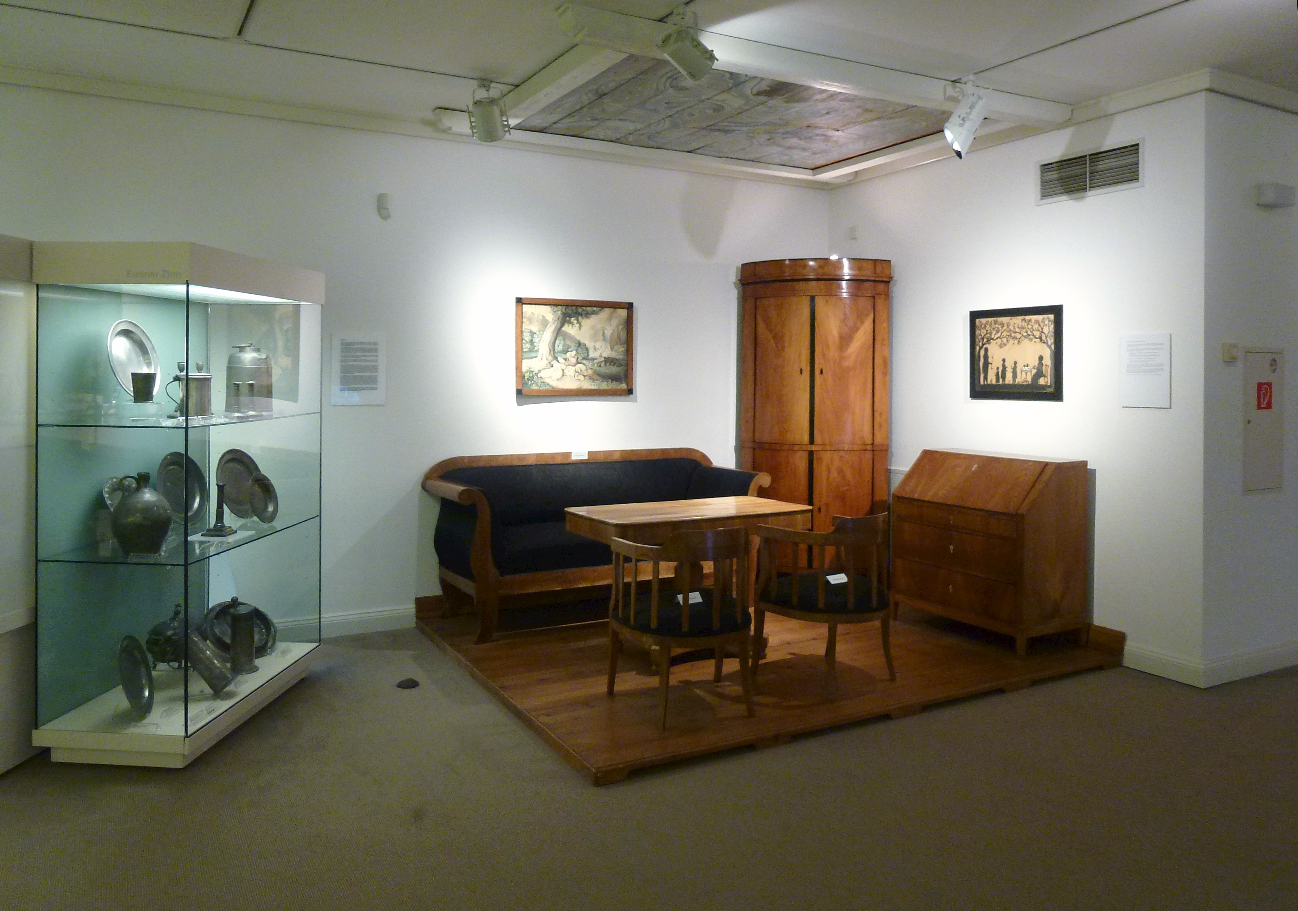 Ostholstein-Museum Eutin